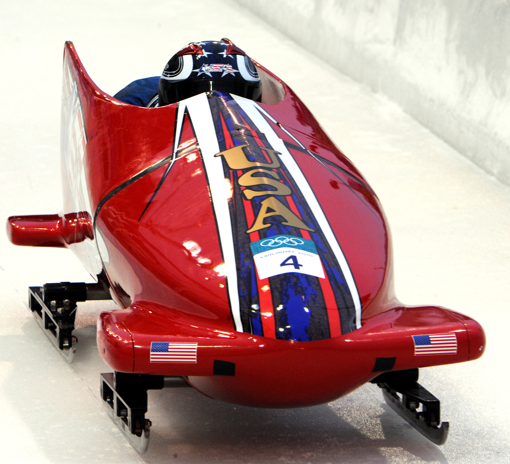 Army National Guard Outstanding Athlete Program bobsled pilot Sgt. Shauna Rohbock drives USA-1 to a sixth-place finish in the two women's bobsled event at the 2010 Winter Olympics.